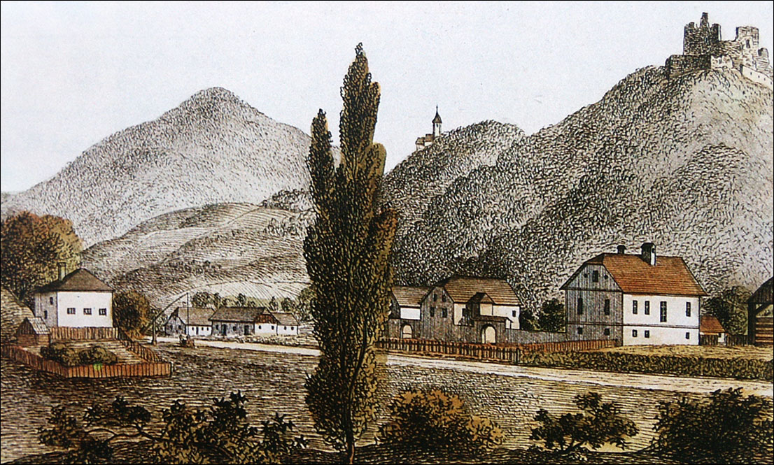 Zbelovo Castle in 1830 lithography.